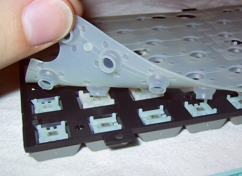 (3 of 3) Construction of a typical notebook computer dome-switch keyboard.